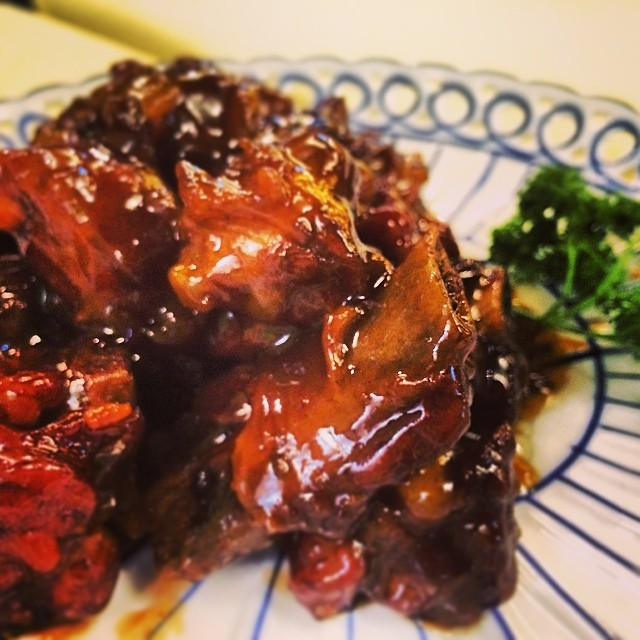 Tángcù páigǔ (sweet and sour pork ribs)